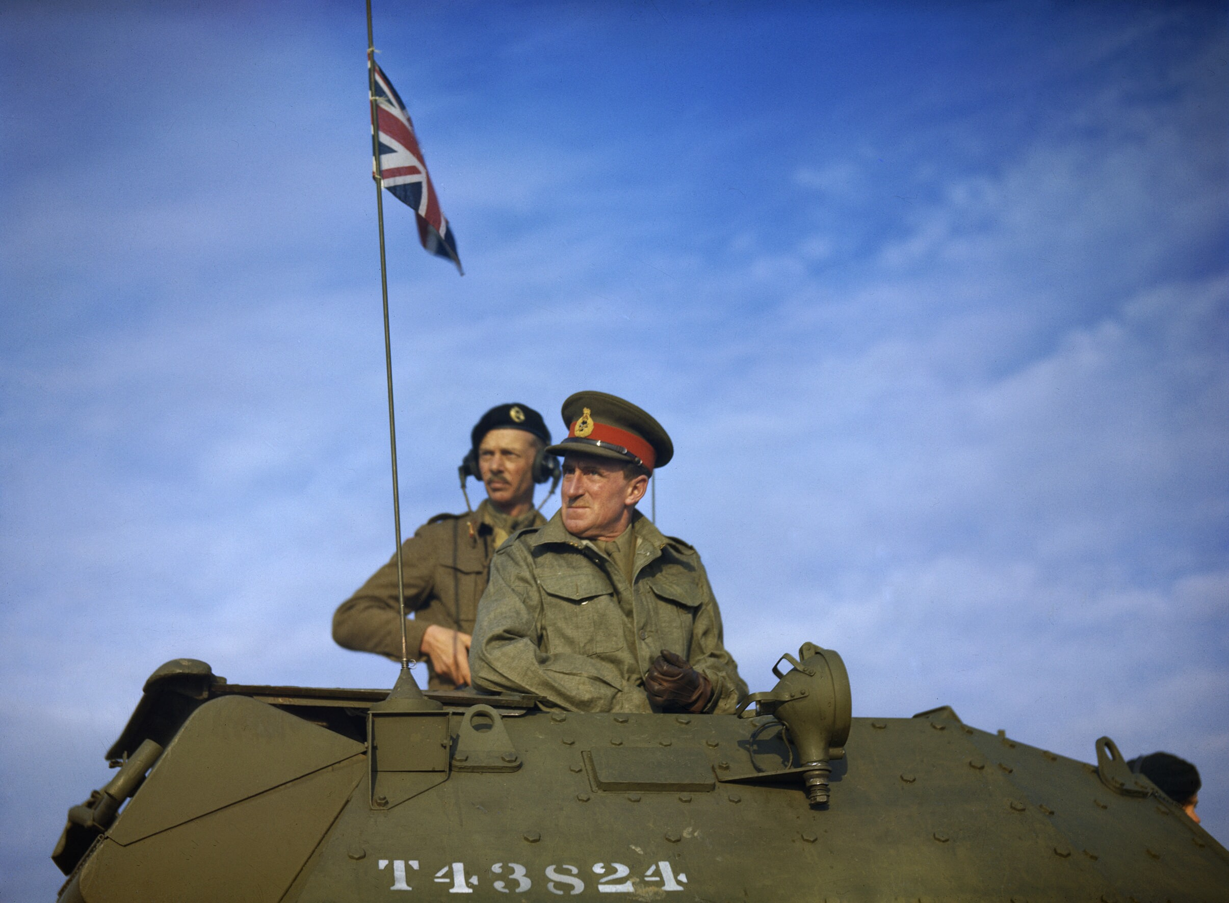 The Commander-in-Chief Home Forces, General Sir Bernard Paget, in the turret of a Crusader tank of 42nd Armoured Division during a large-scale exercise near Malton in Yorkshire, 29 September 1942. The Commander in Chief Home Forces, General Sir Bernard Paget, spending a day with the 42nd Armoured Division during a large scale exercise near Malton in Yorkshire. He is seen watching from a Crusader tank.